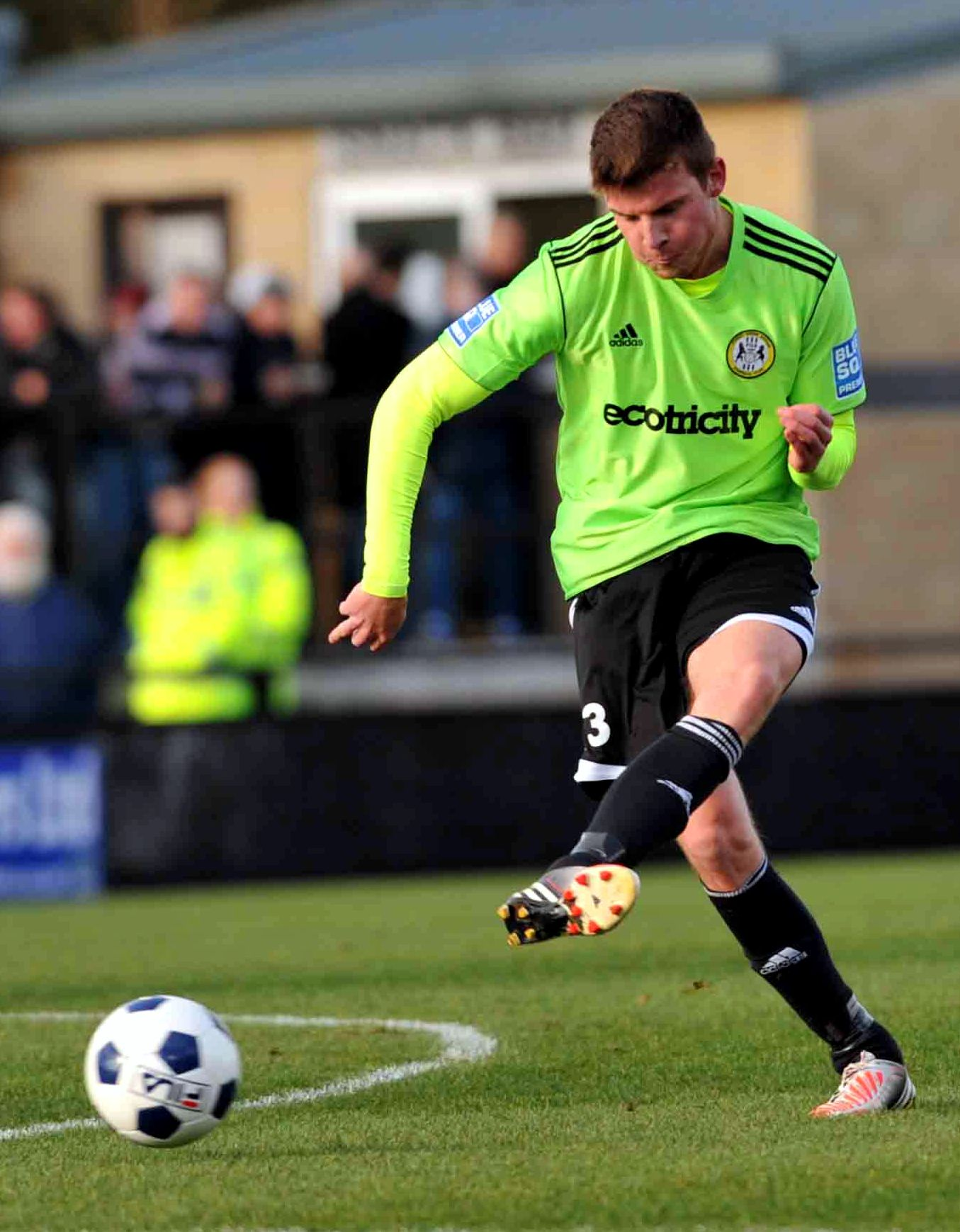 Chris Stokes playing for Forest Green Rovers during the 2012/13 season.